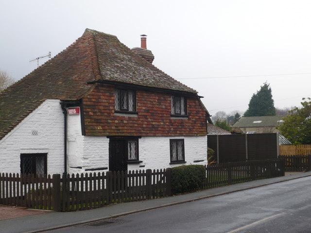 Cottage of St. John. Fordwich, dated 1650